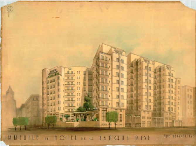 Perspective from the plans for the Banque Misr Building and Hotel, which was never built.